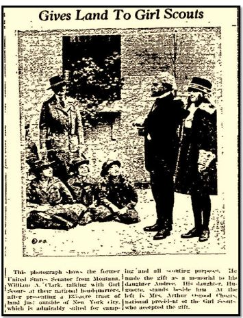 Camp Andree Clark - William A. Clark donates 135 acres to the Girl Scouts - named after his daughter, Andree, who died before age 17.